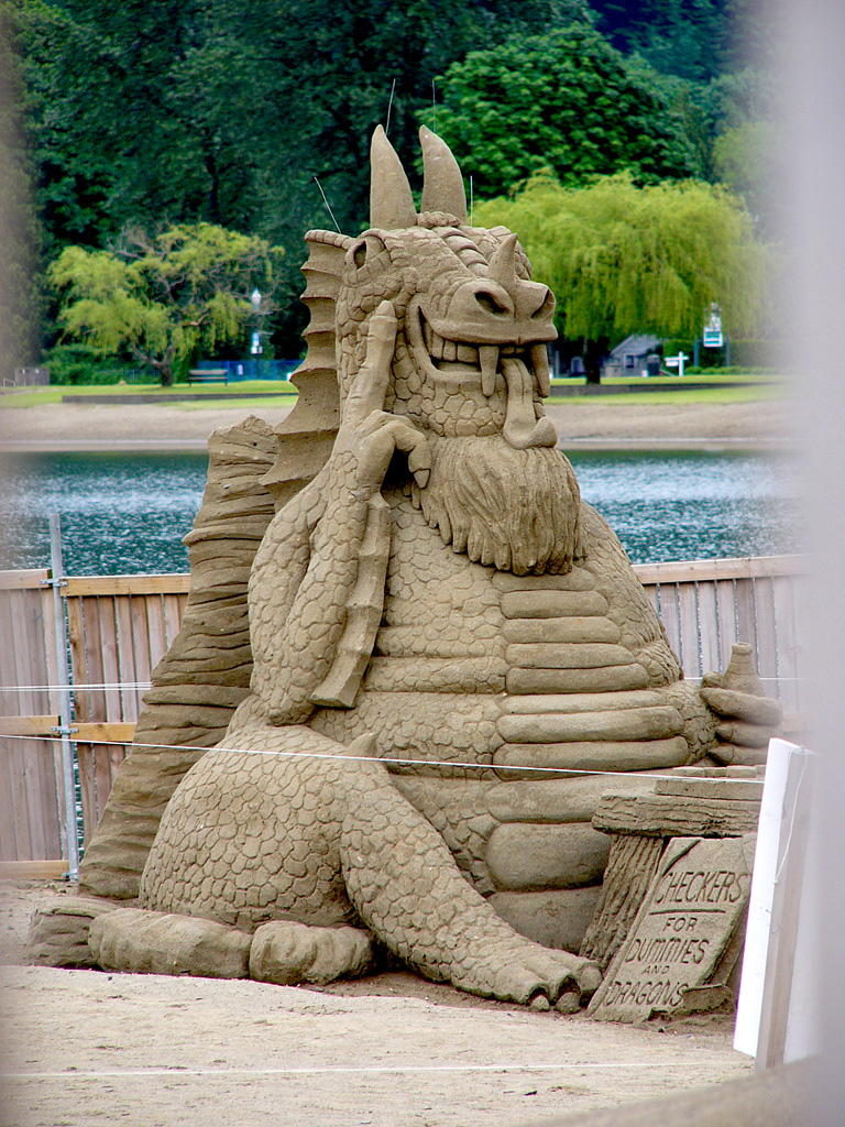 Harrison Hot Springs, B.C.